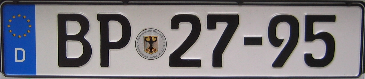 German registration plates for Federal Police (Bundespolizei).